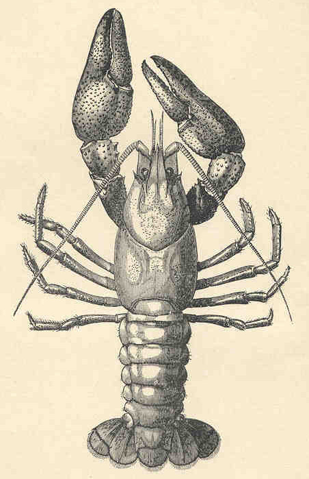 Common Crayfish (Astacus fluviatilis, Male) Subject: Asticadae, Crayfish Tag: Shellfish